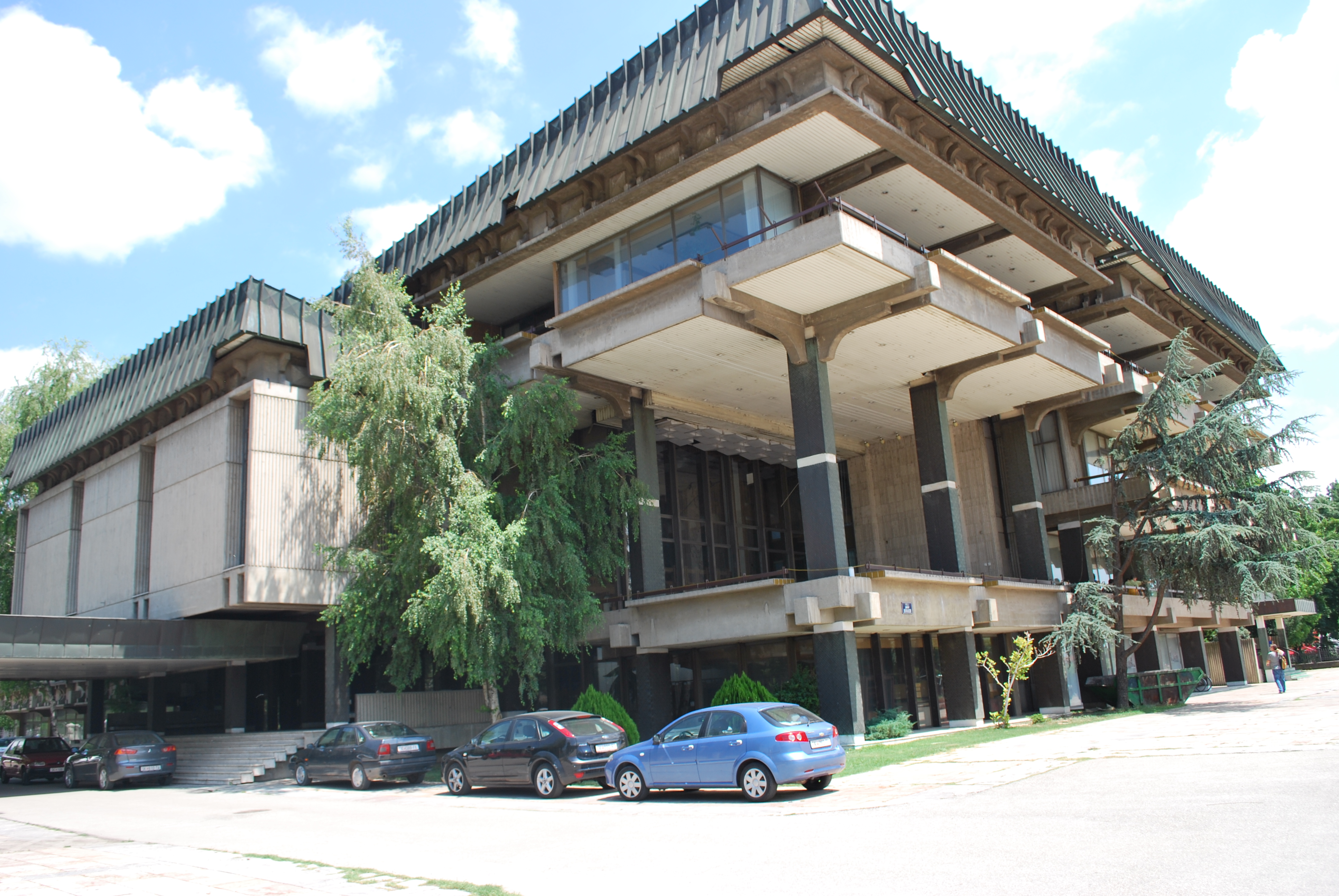 IMacedonian Academy of Sciences and Arts in Skopje, Macedonia